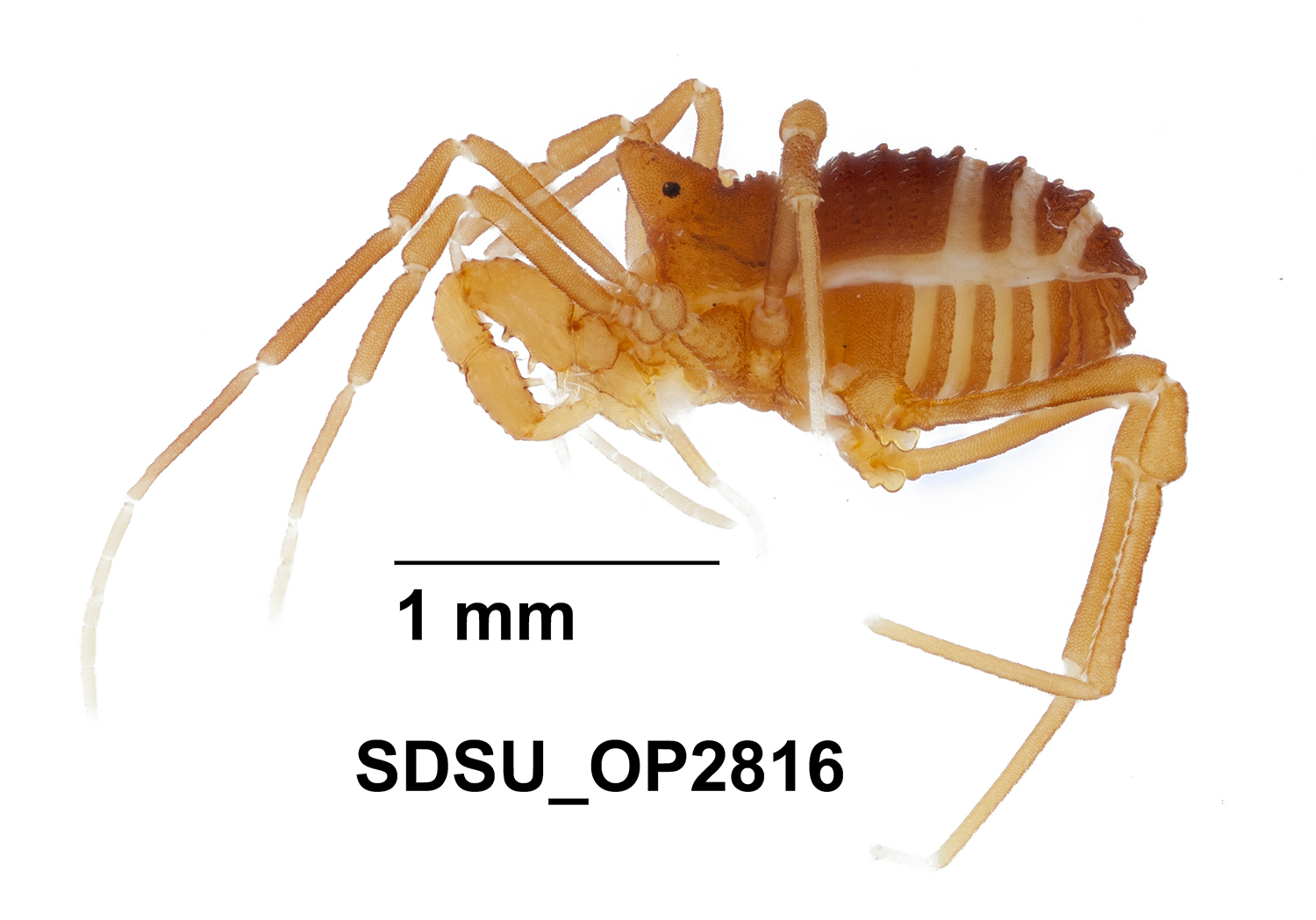 Sitalcina californica (Banks, 1893); PRESERVED_SPECIMEN; MALE; ; 30/03/2010 00:00; Identified by: M Hedin